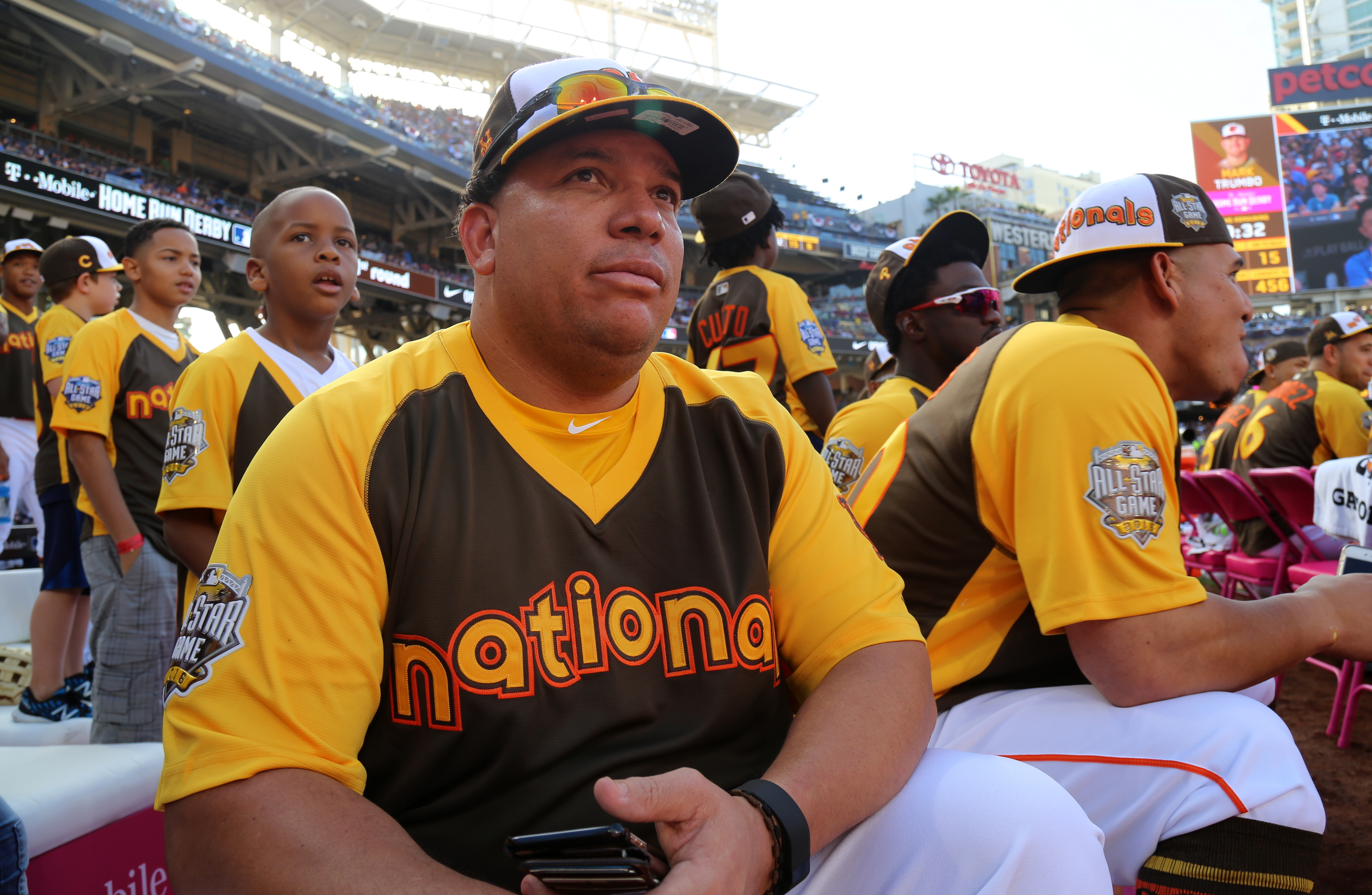 Bartolo Colon looks on during the 2016 T-Mobile #HRDerby.